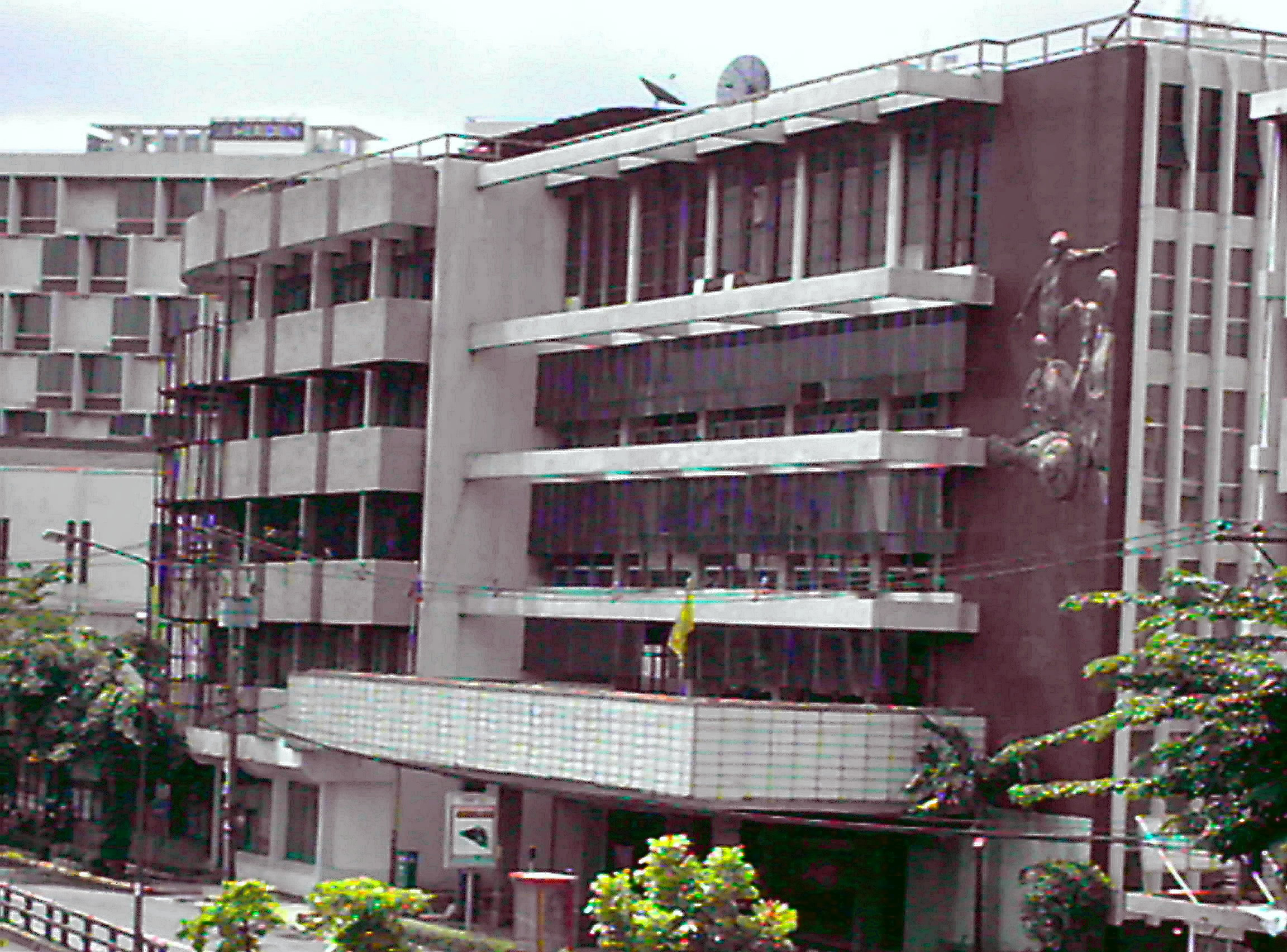 Rama Theatre Building, Rama 4 Road, Bangkok, Thailand 中文（香港）: 泰國，曼谷，拍喃四路，拉瑪戲院大廈。